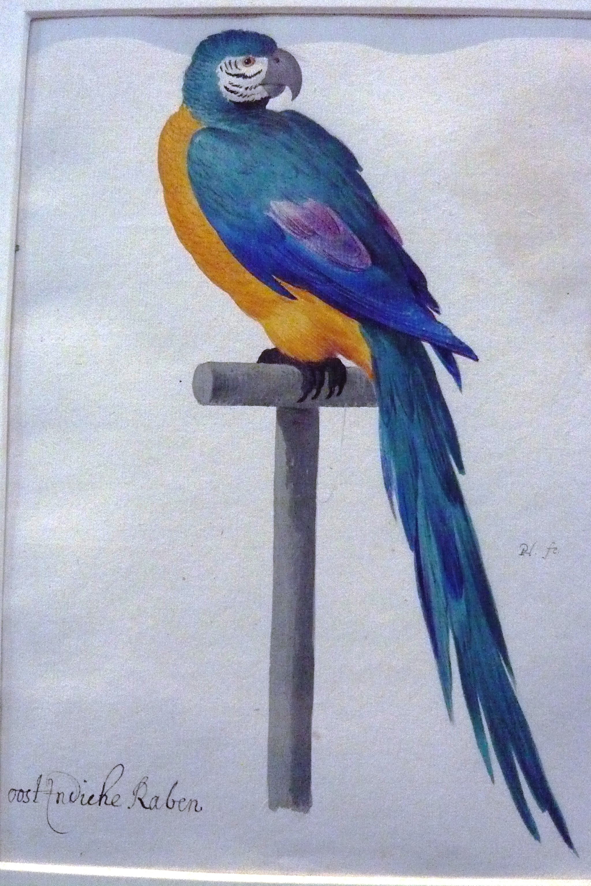 Exhibition about Haarlem printing company Joh. Enschedé in St. Janskerk, Haarlem, by North Holland archives East Indian raven